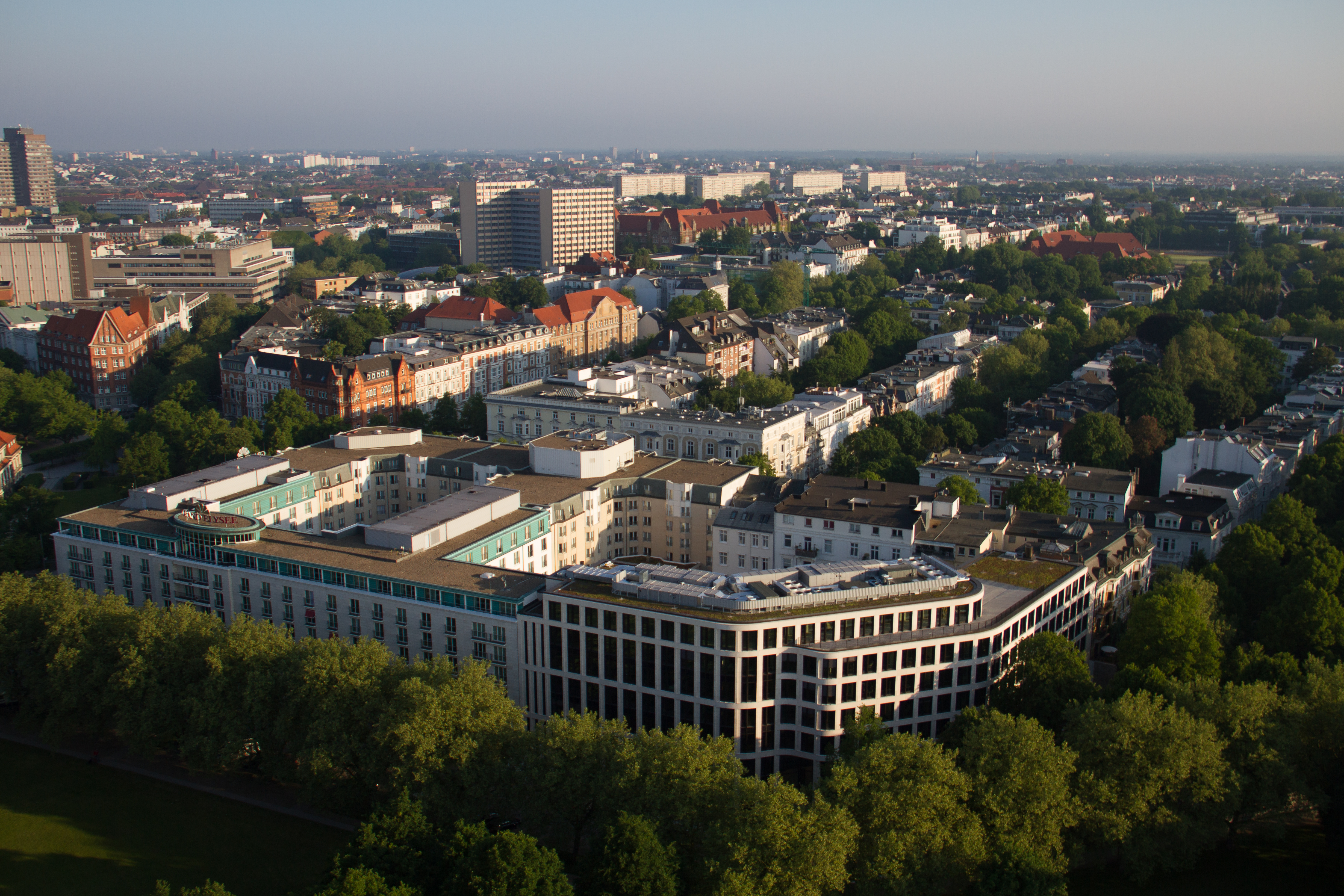 Grand Elysée Hotel Hamburg, SAP Hamburg, Tesdorpfstrasse corner Rothenbaumchaussee, Germany.